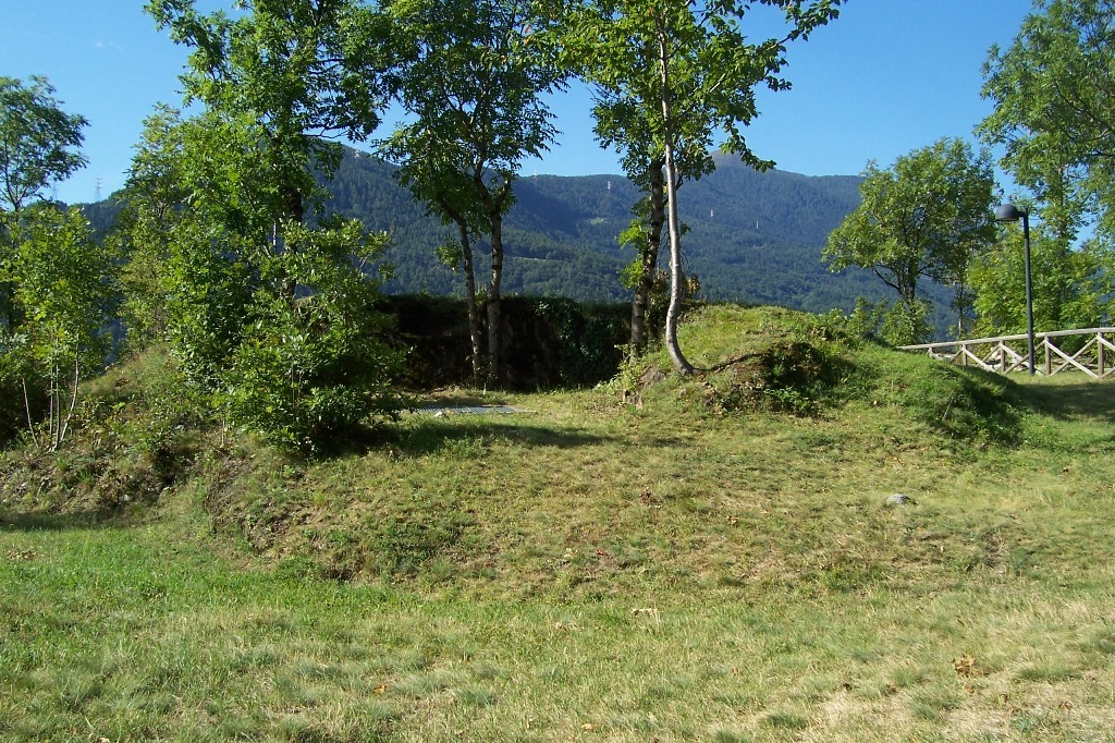 Castle of Mù. Edolo, Val Camonica